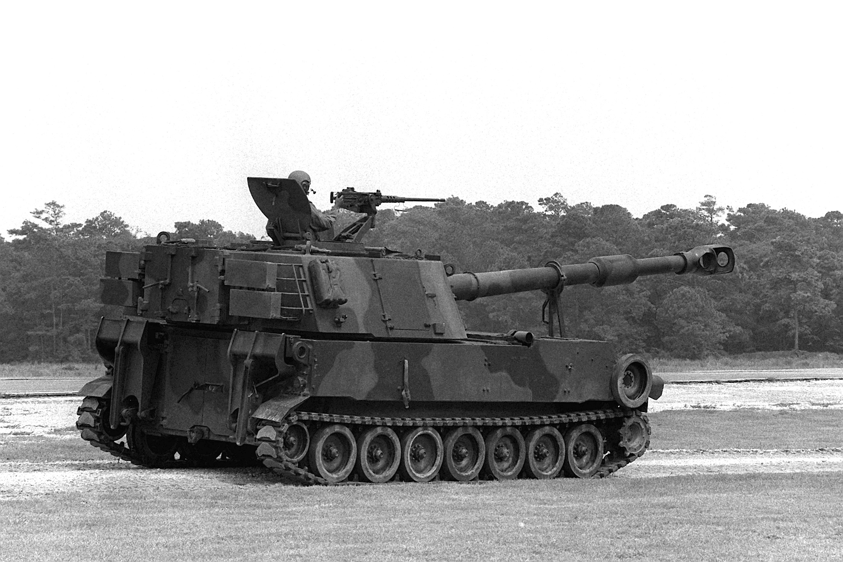 A M-109 155mm self-propelled howitzer during a firepower demonstration.